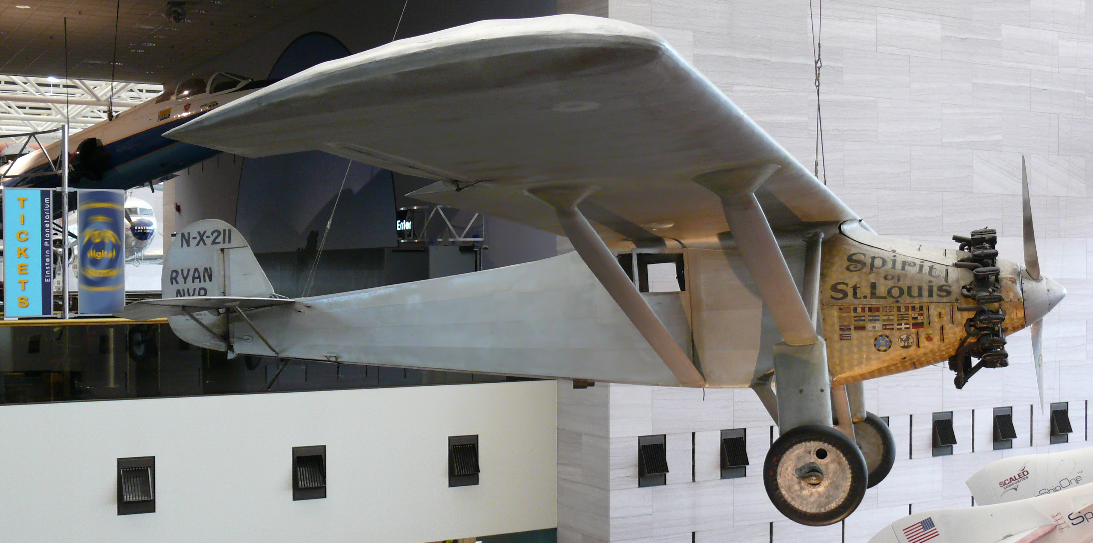 Spirit of St-Louis photographed at National Air and Space Museum. The Spirit of St. Louis (Registration: N-X-211) is the custom-built single engine, single seat monoplane that was flown solo by Charles Lindbergh on May 20-21, 1927, on the first non-stop flight from New York to Paris.